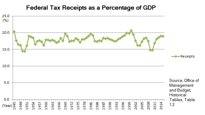 This image displays U.S. federal government tax receipts as a percentage of GDP from 1945 to 2015 according to data from the Office of Management and Budget's Historical Tables, Table 1.2 (available here). It should be noted that the data for years 2010 to 2015 are statistical projections.